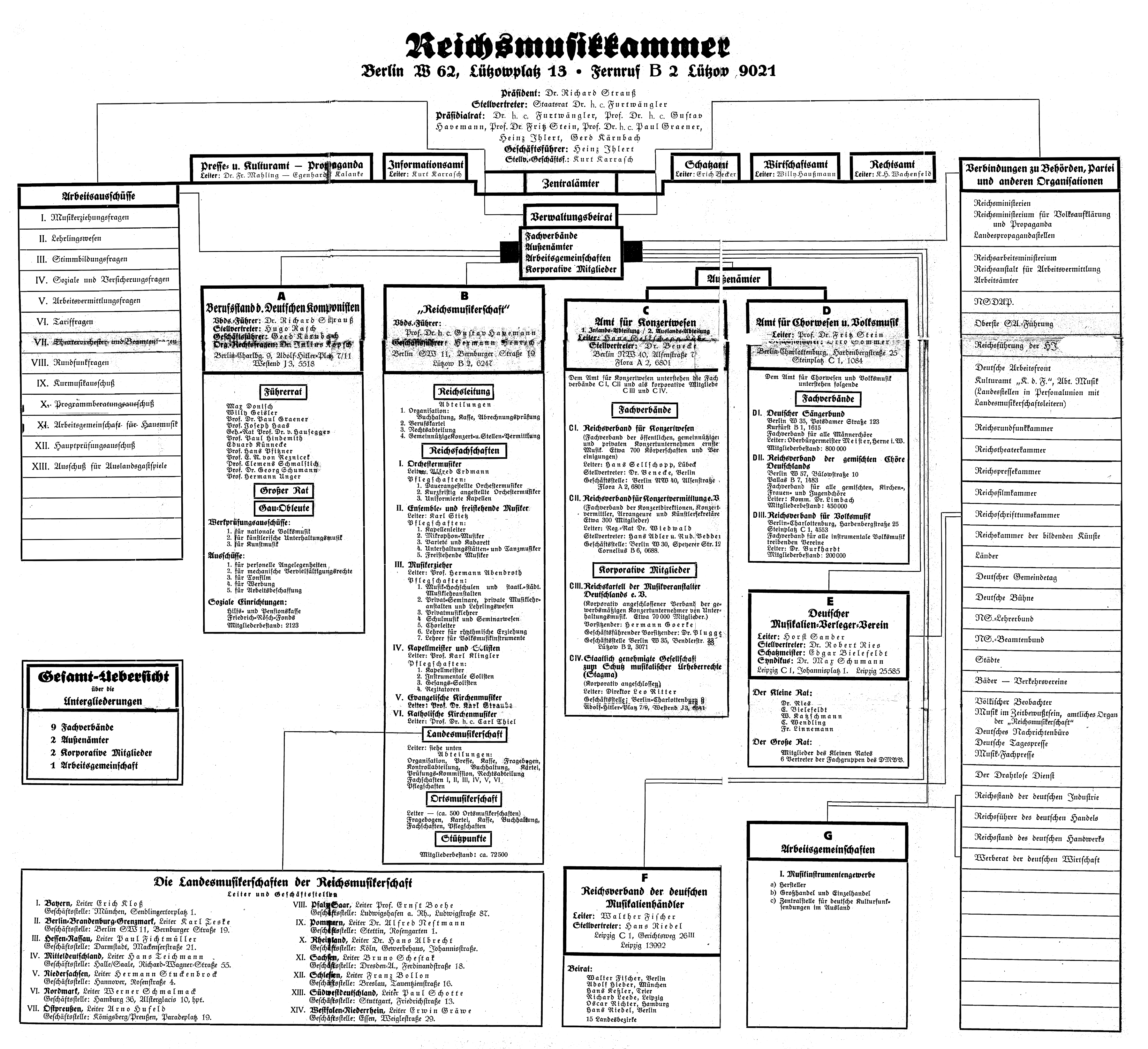 Organigram of the Reichsmusikkammer 1934